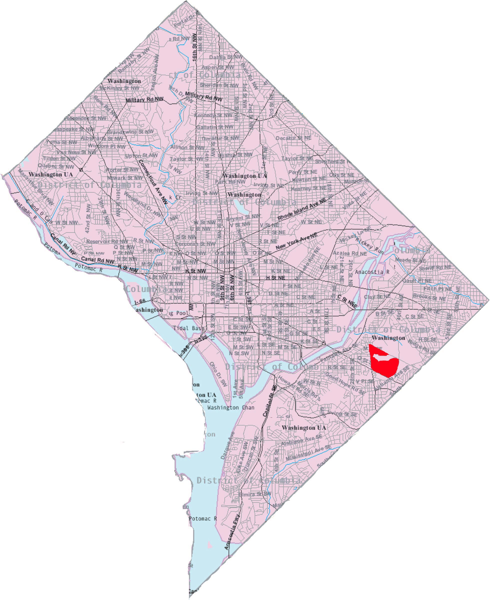 This image is a modified version of a self-generated reference map from the U.S. Census Bureau's American Factfinder at by Wikipedia user Msclguru.